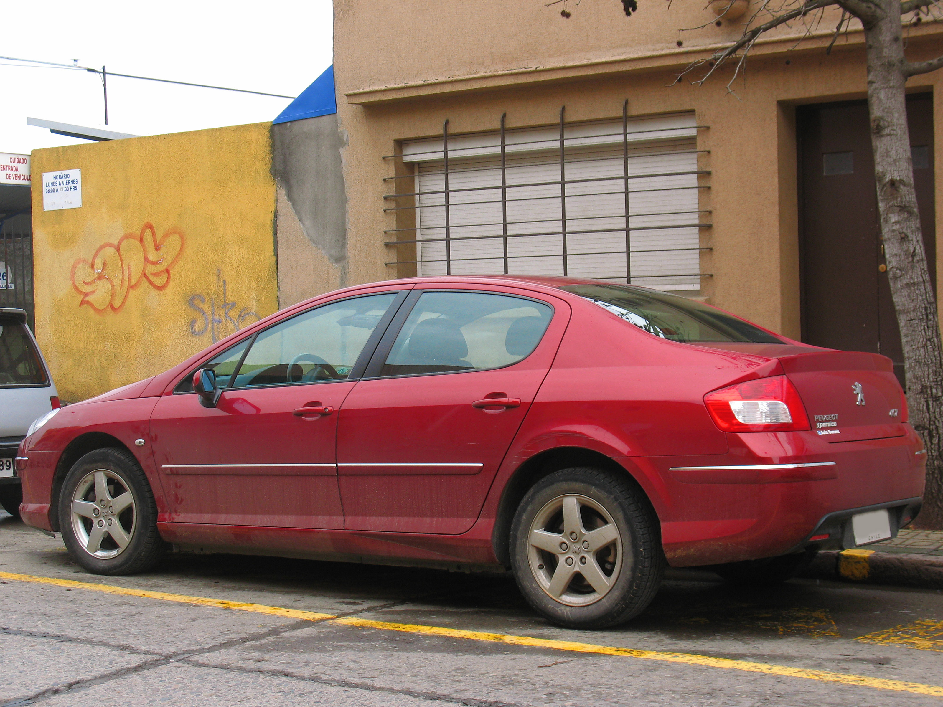 Peugeot 407 2.0 Confort Plus 2009